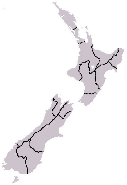 Regions of New Zealand